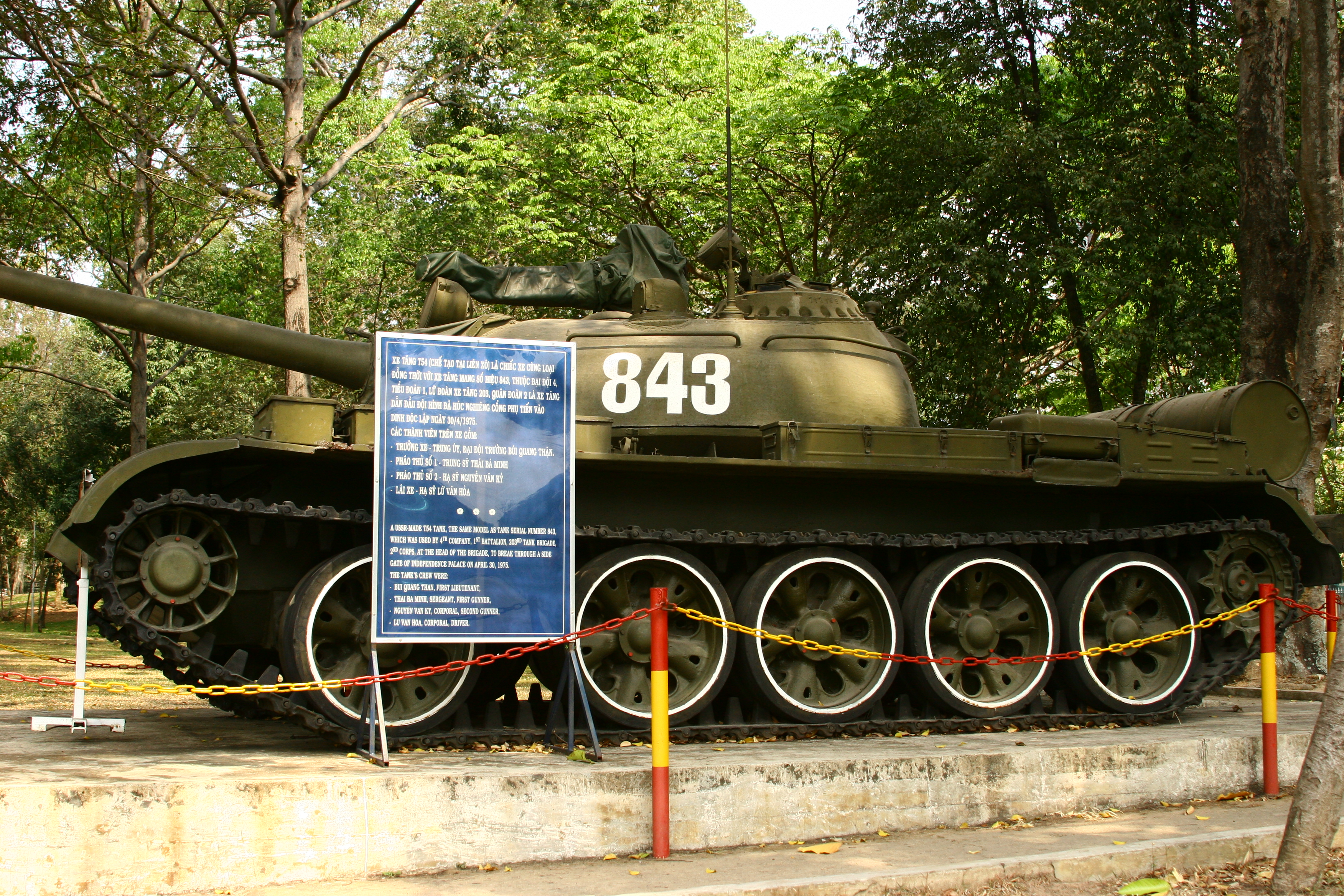 Vietnamese T-54A or Type 59 tank at the Reunification Palace in Ho Chi Minh City, Vietnam.